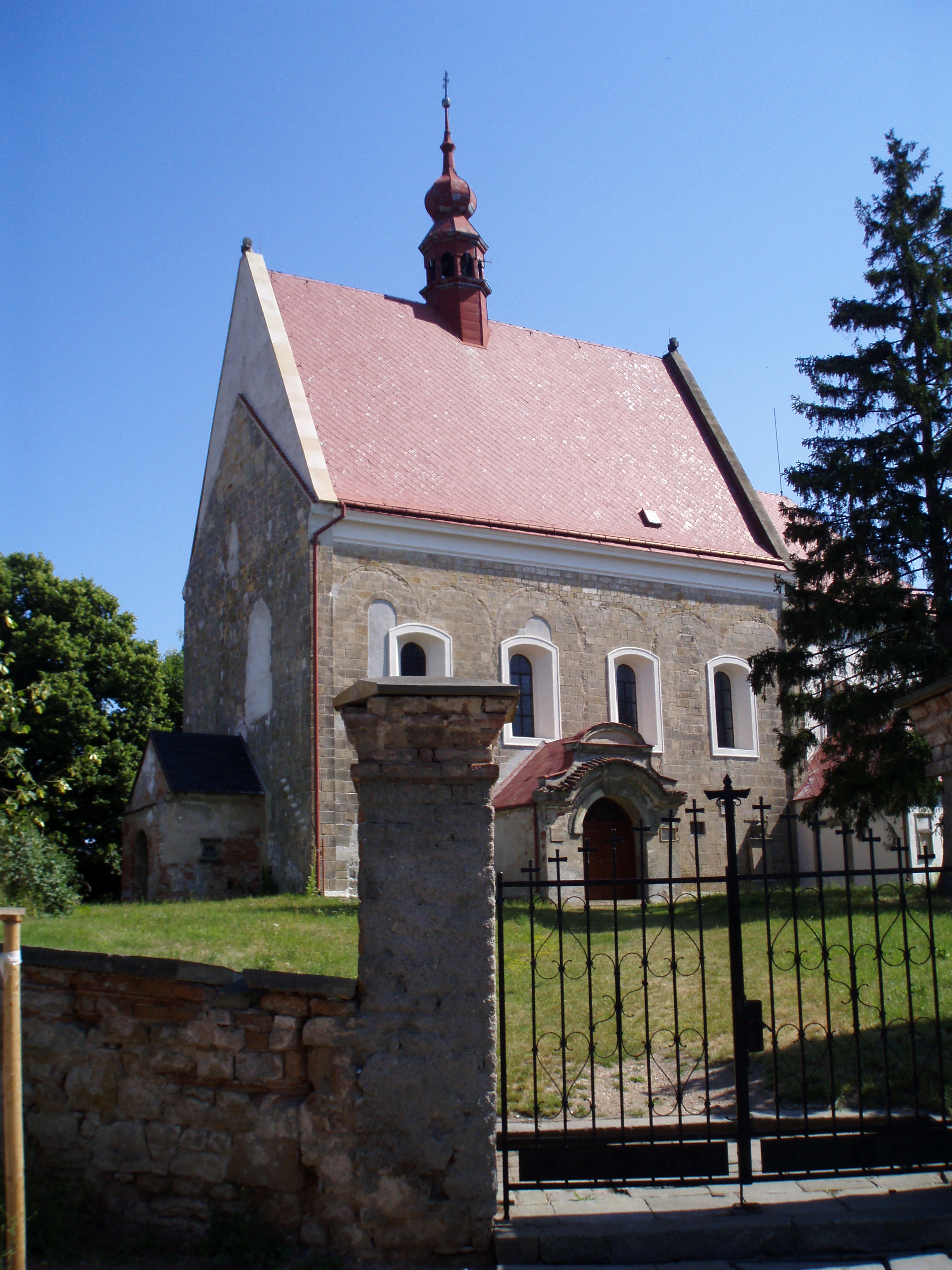 Church in Libčany (District of Hradec Kralove, CZ)